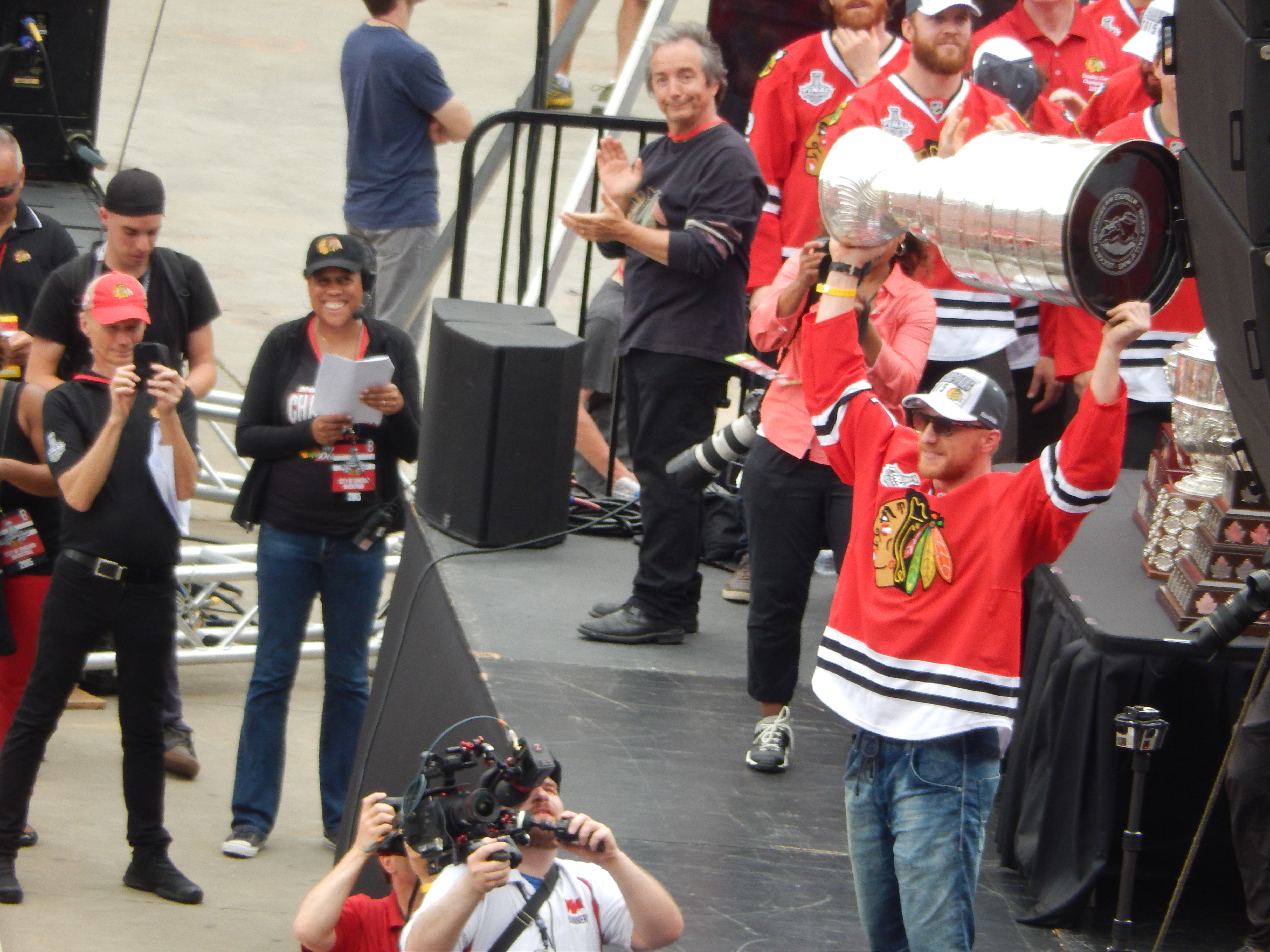 Chicago Blackhawks winger Marian Hossa lifts the Stanley Cup before a crowd of fans.